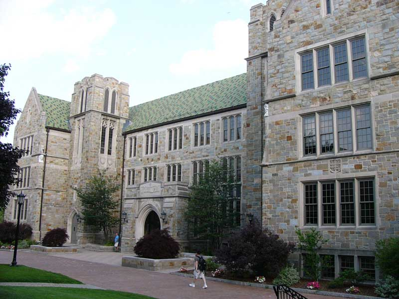 Fulton Hall at Boston College Photo taken by John Workman